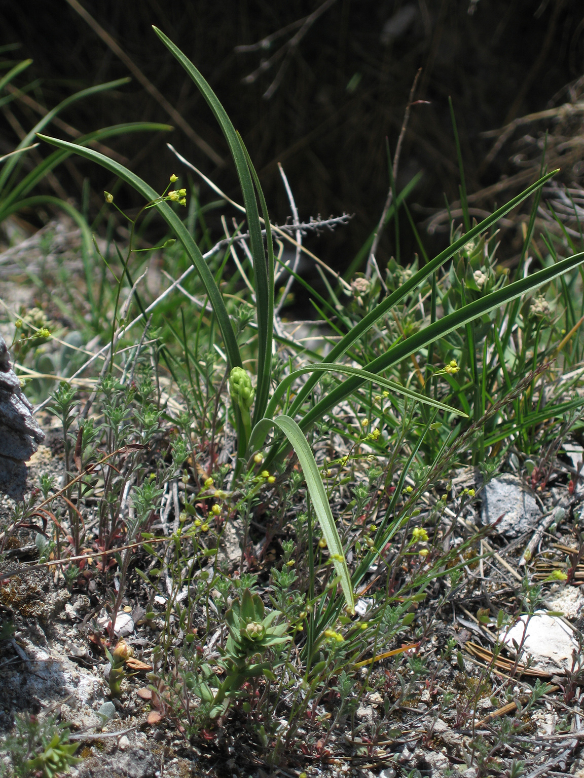 The generally glabrous toothed leaves born in part on the stem and the long pedicels are characteristic of this annual draba. Draba is the slender yellow flowered annual growing around the large leaves of Zigadenus venenosus (Liliaceae).